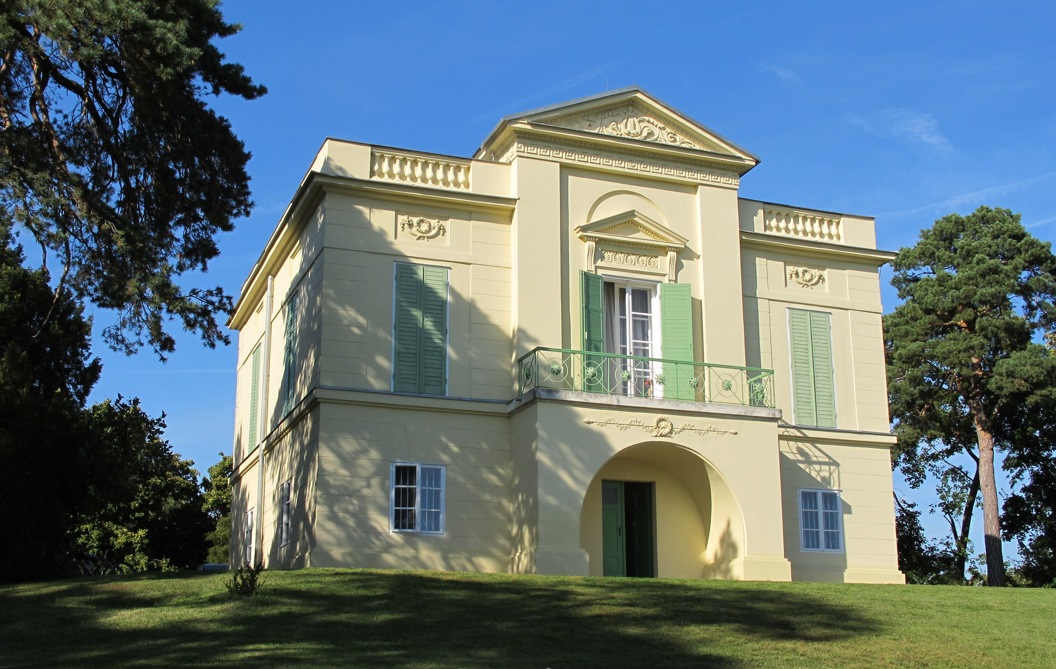 Pond House in Lednice–Valtice Cultural Landscape, Břeclav District